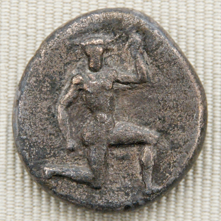 Silver didrachm of Knossos in Crete, ca. 425–ca. 360 BC; obverse: Minotaur running right.